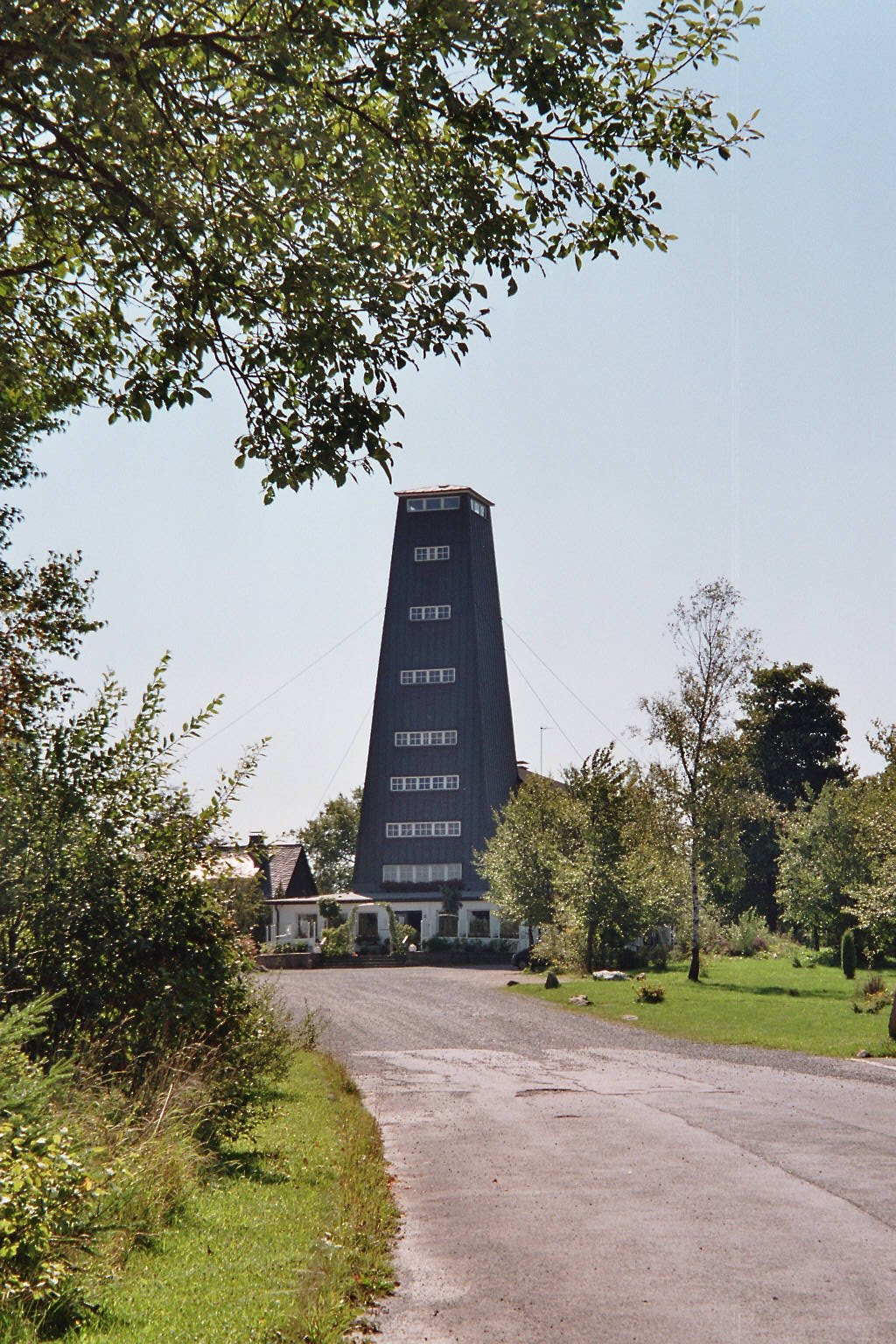 The so called Rhein-Weser-Turm, Germany